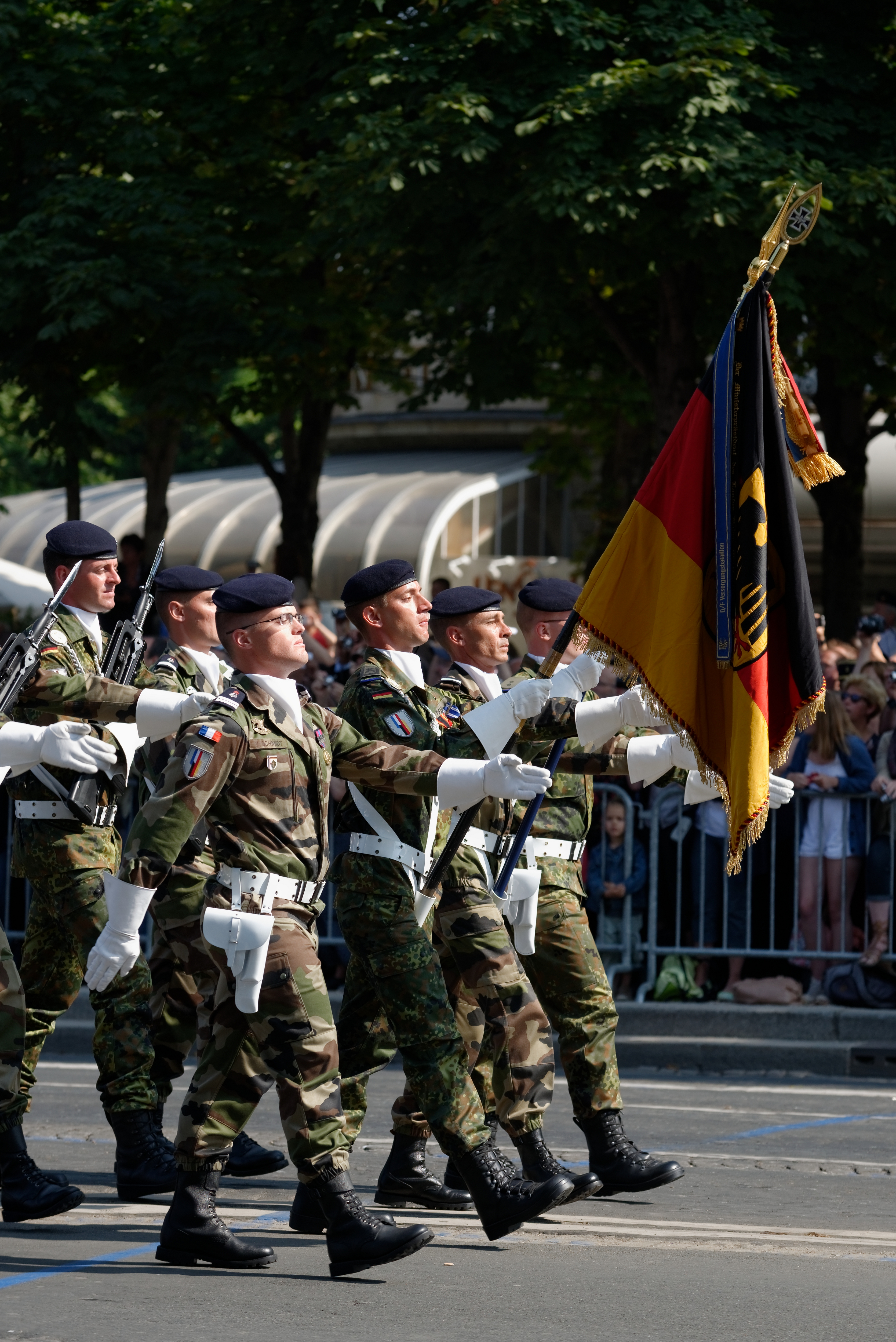 Colour guard of the Franco-German Brigade at the Bastille Day 2013 military parade on the Champs Elysees in Paris.